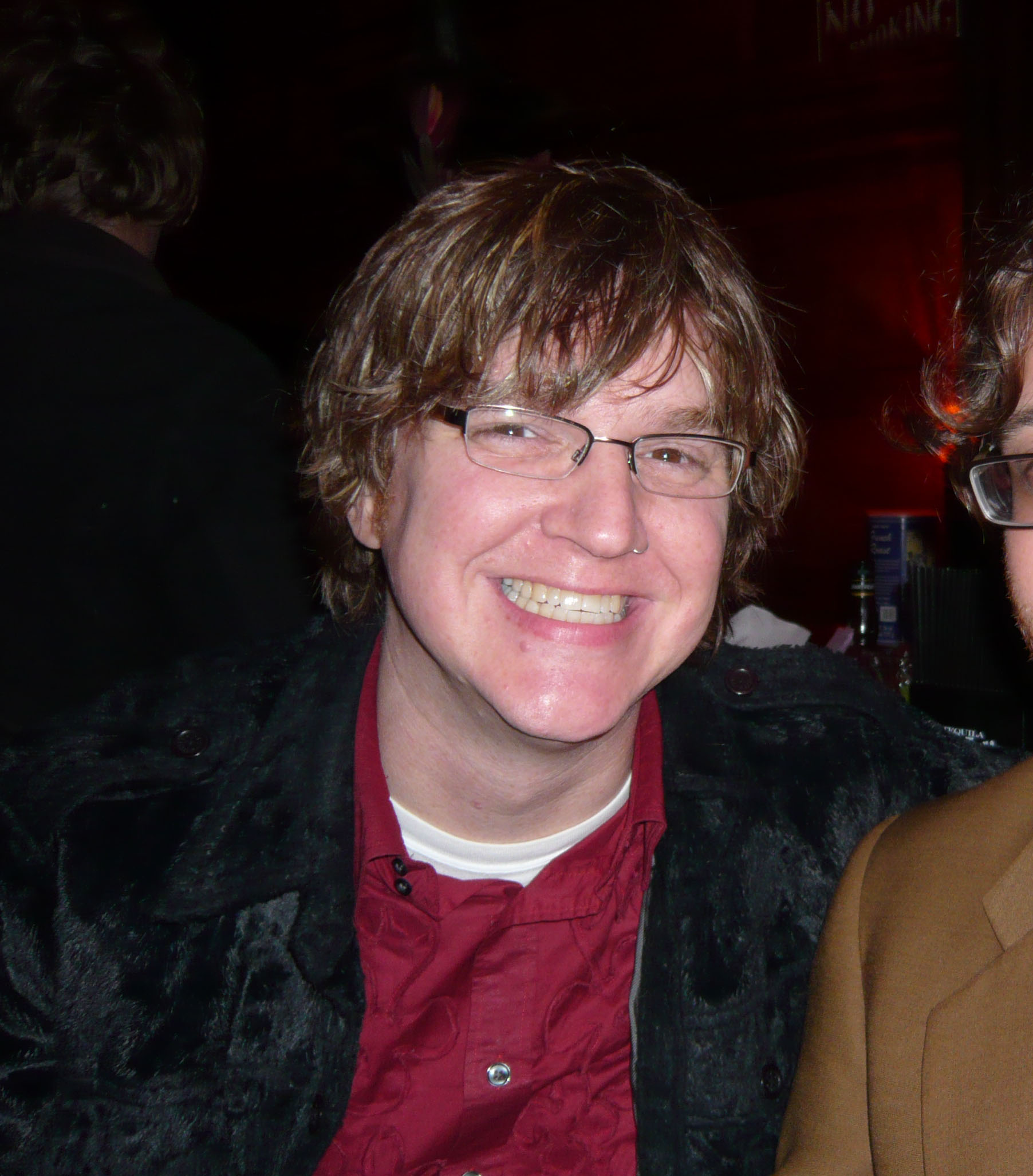 Depicted person: Jeff Robbins – American musician and web developer